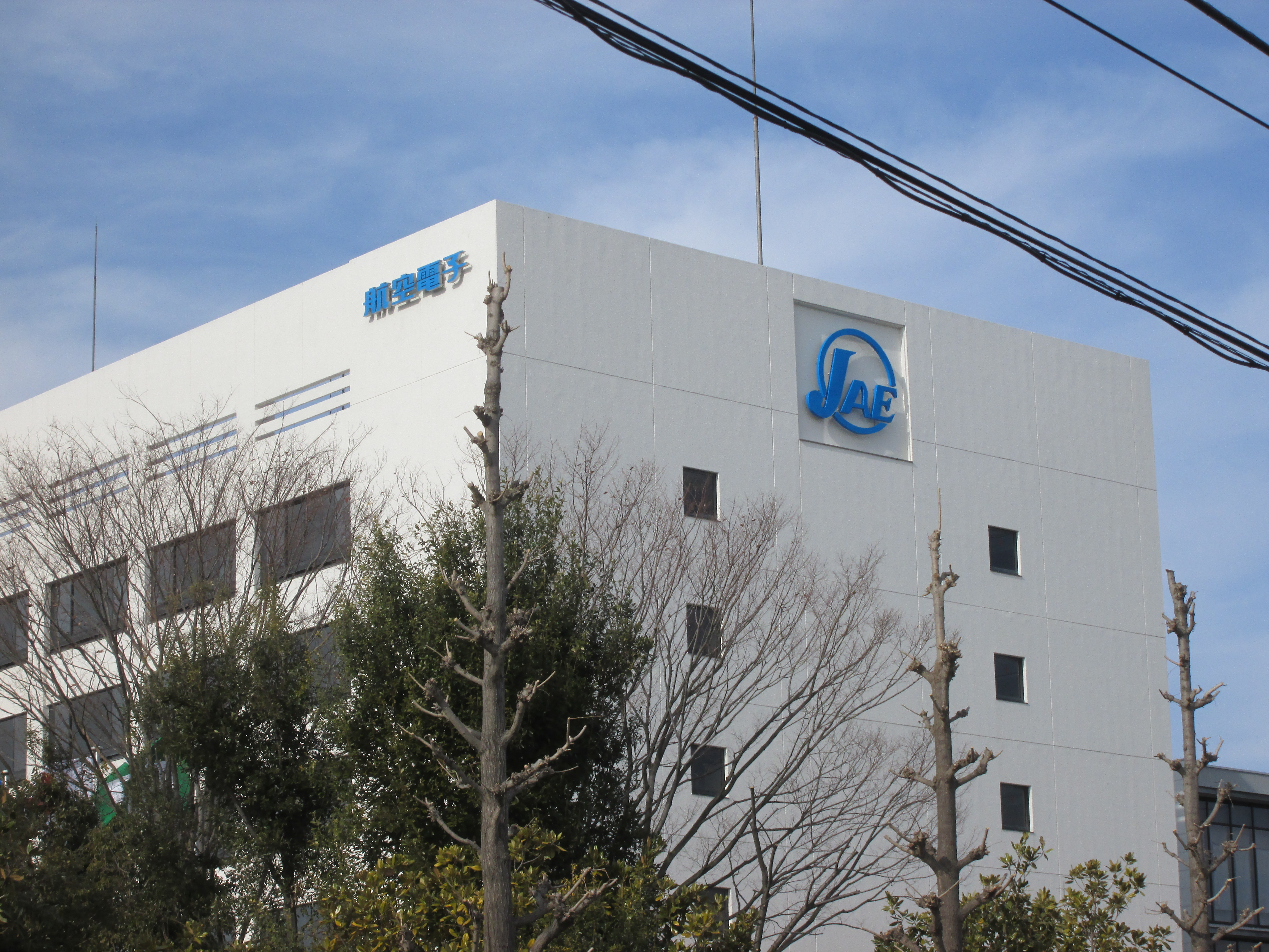 The main bldg of JAE Akishima site (Addr: 3-1-1, Musashino, Akishima, Tokyo, Japan).